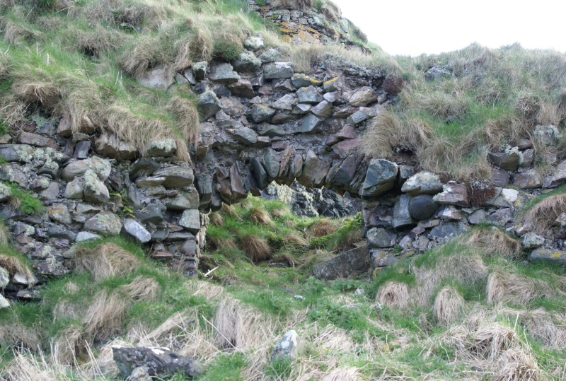 Dunyvaig Castle, Islay, Argyll and Bute, Scotland. Entrance to inner courtyard.